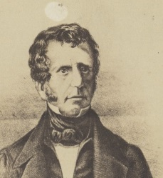 Isaak Markus Jost